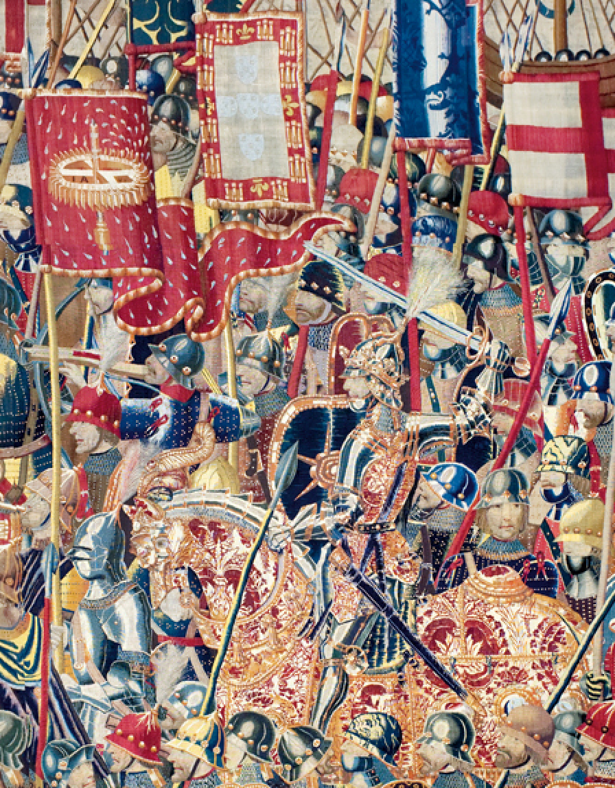 The King's standard-bearer, Duarte de Almeida (in full armour), and King Alphonso V during the Assault on Asilah in 1471 (detail of the Pastrana Tapestries, 15th century).